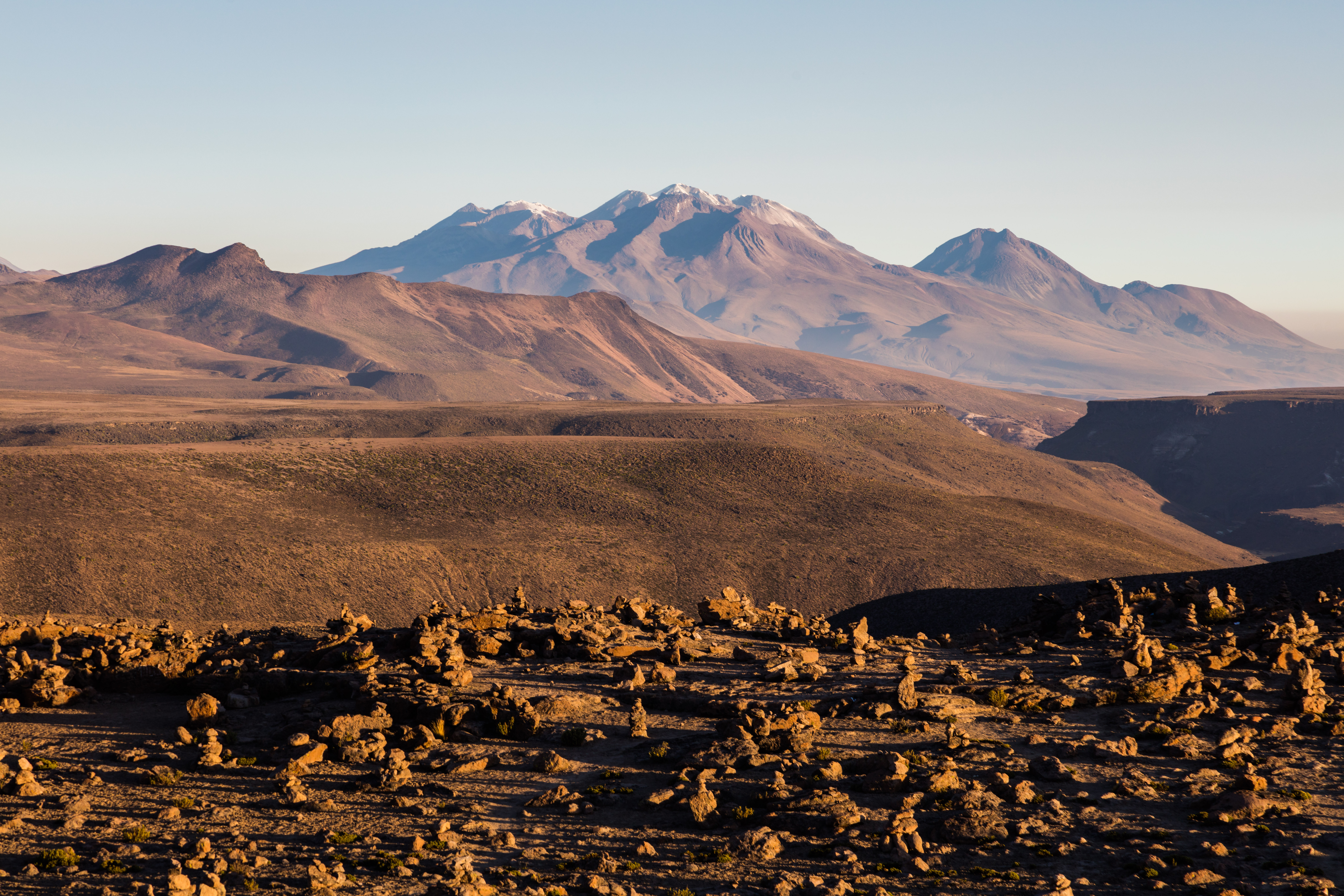 Chachani volcano, Perú